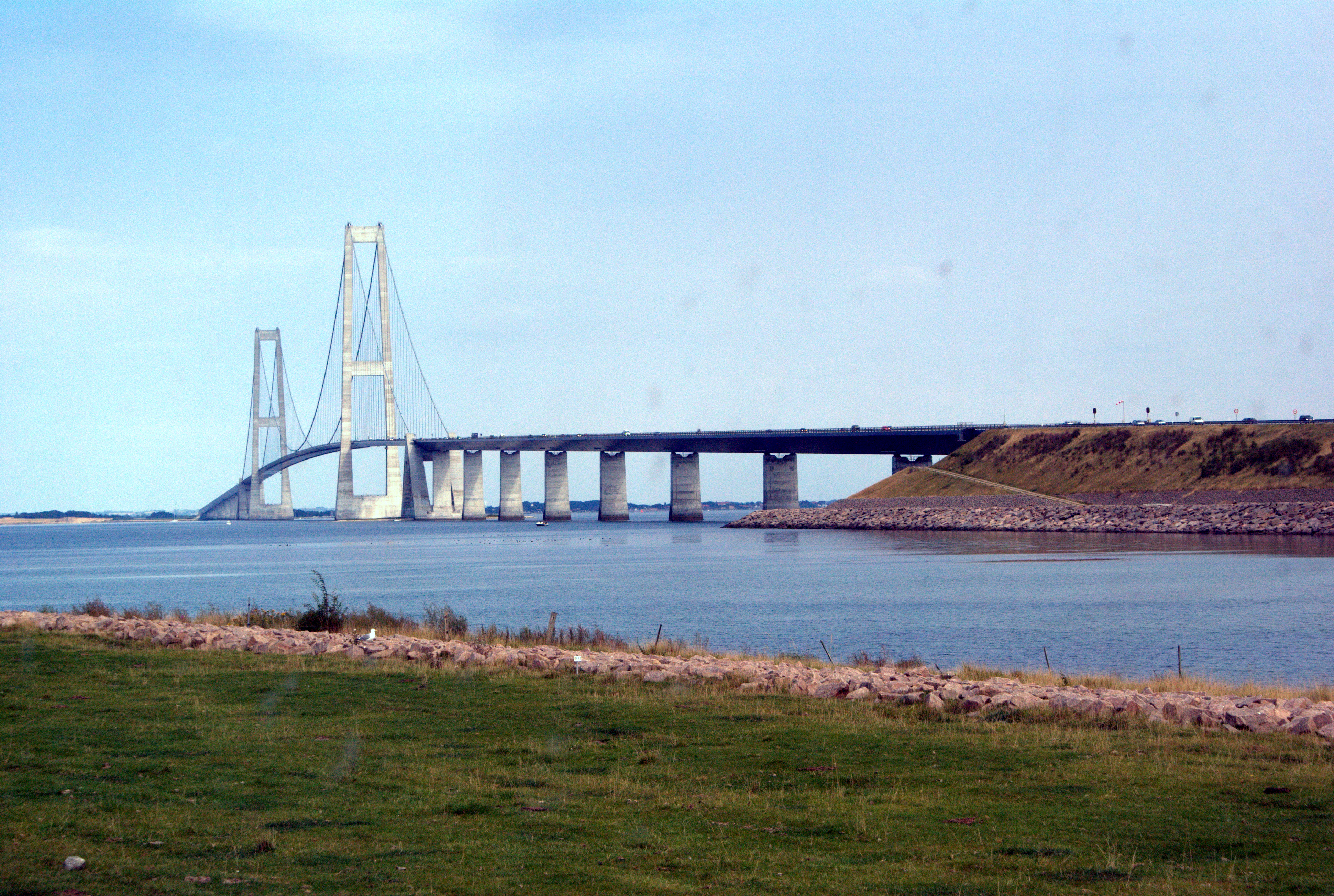 The greatbelt bridge.